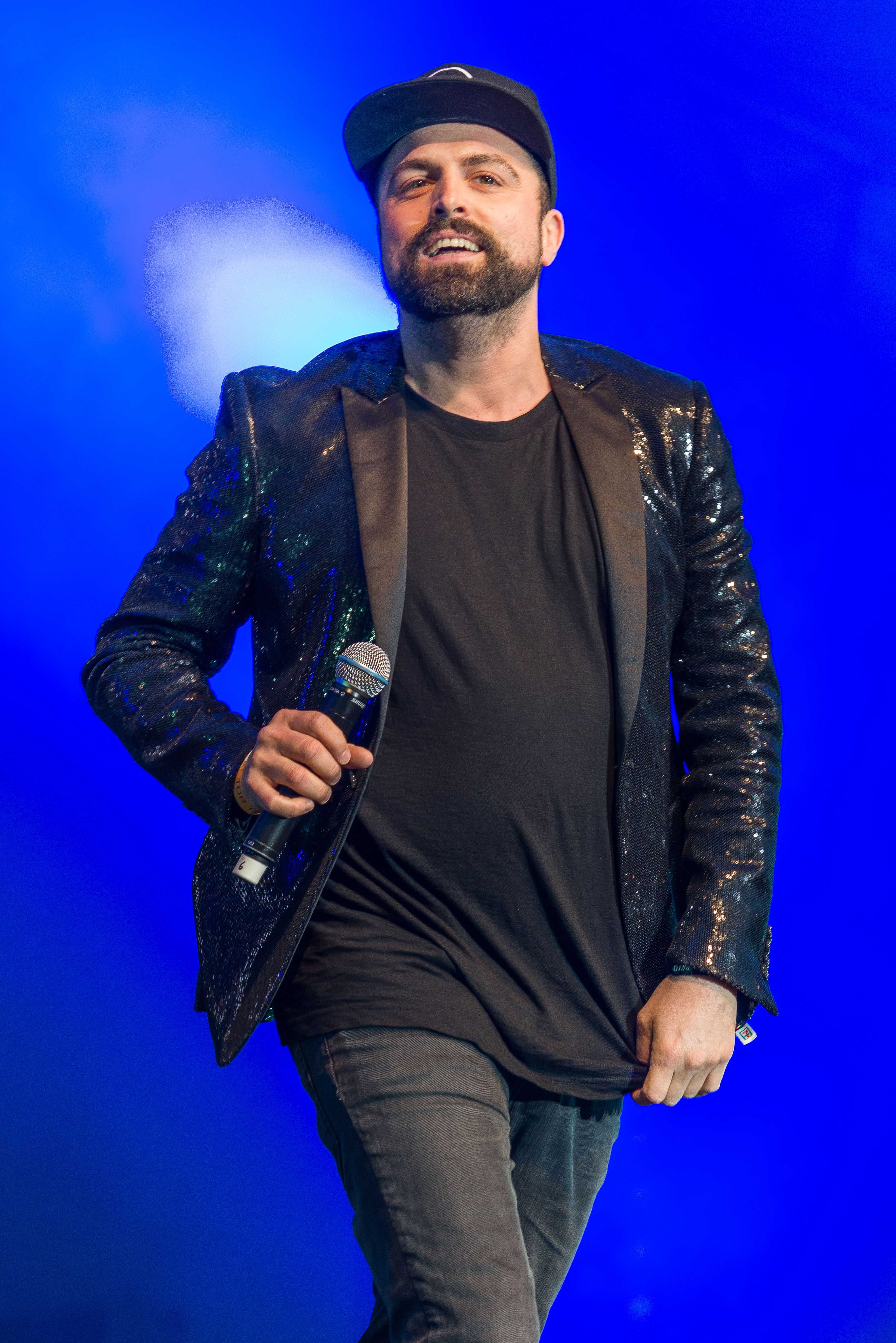 Andres Esteche at Stockholm Pride 2015